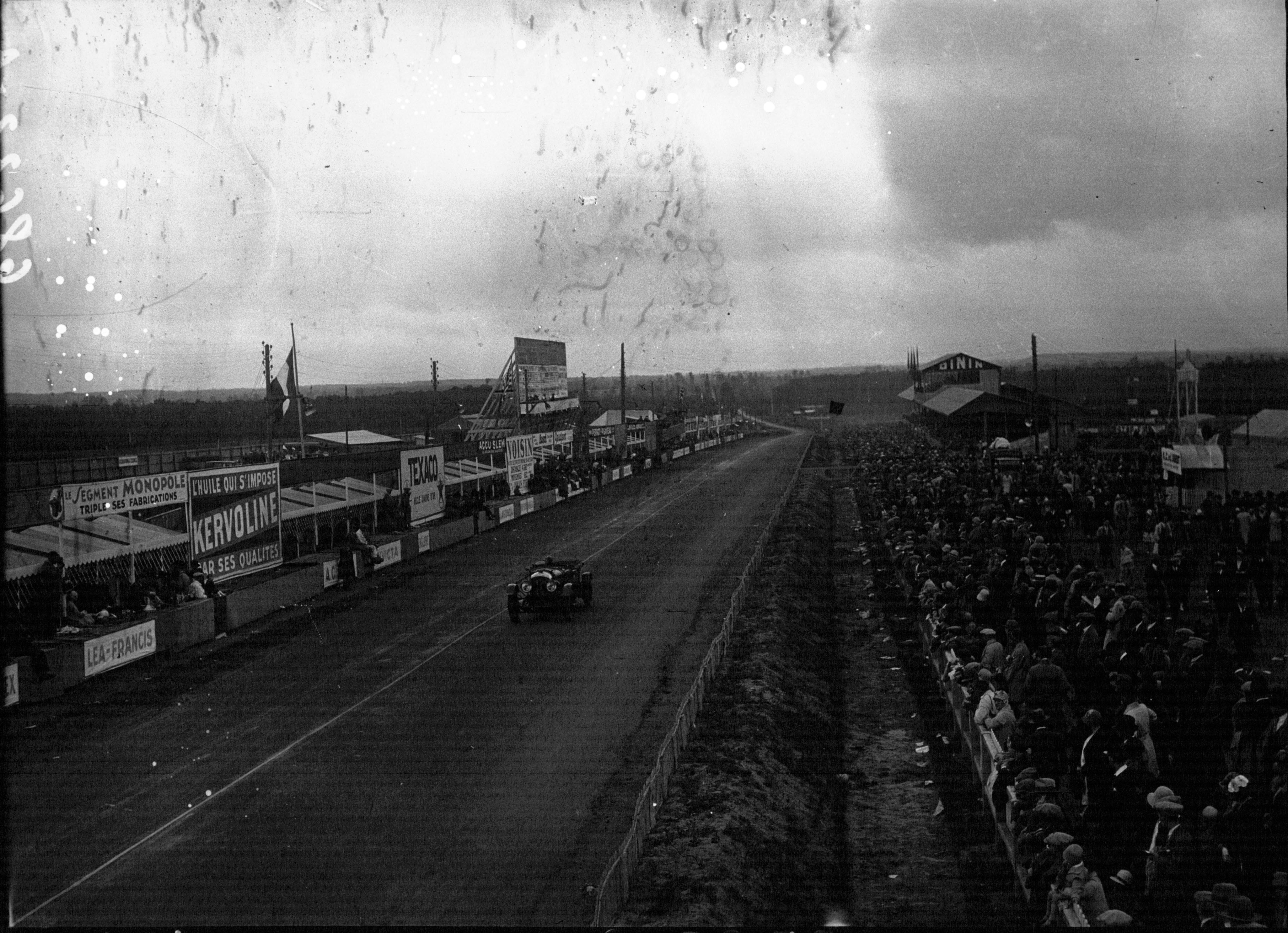 Bentley #10 of Benjafield and d'Erlanger at the 1929 24 Hours of Le Mans.